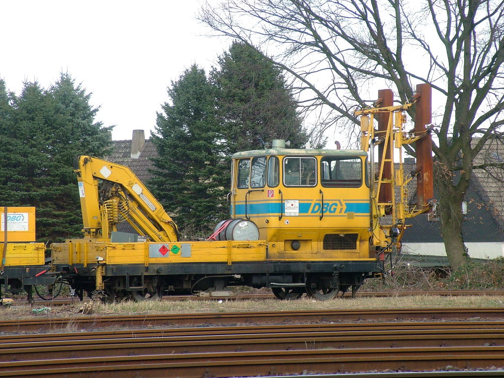 track maintenance vehicle Klv 53-0682 with additional equipment for heating rails prior to welding, Dortmund-Mengede, Germany